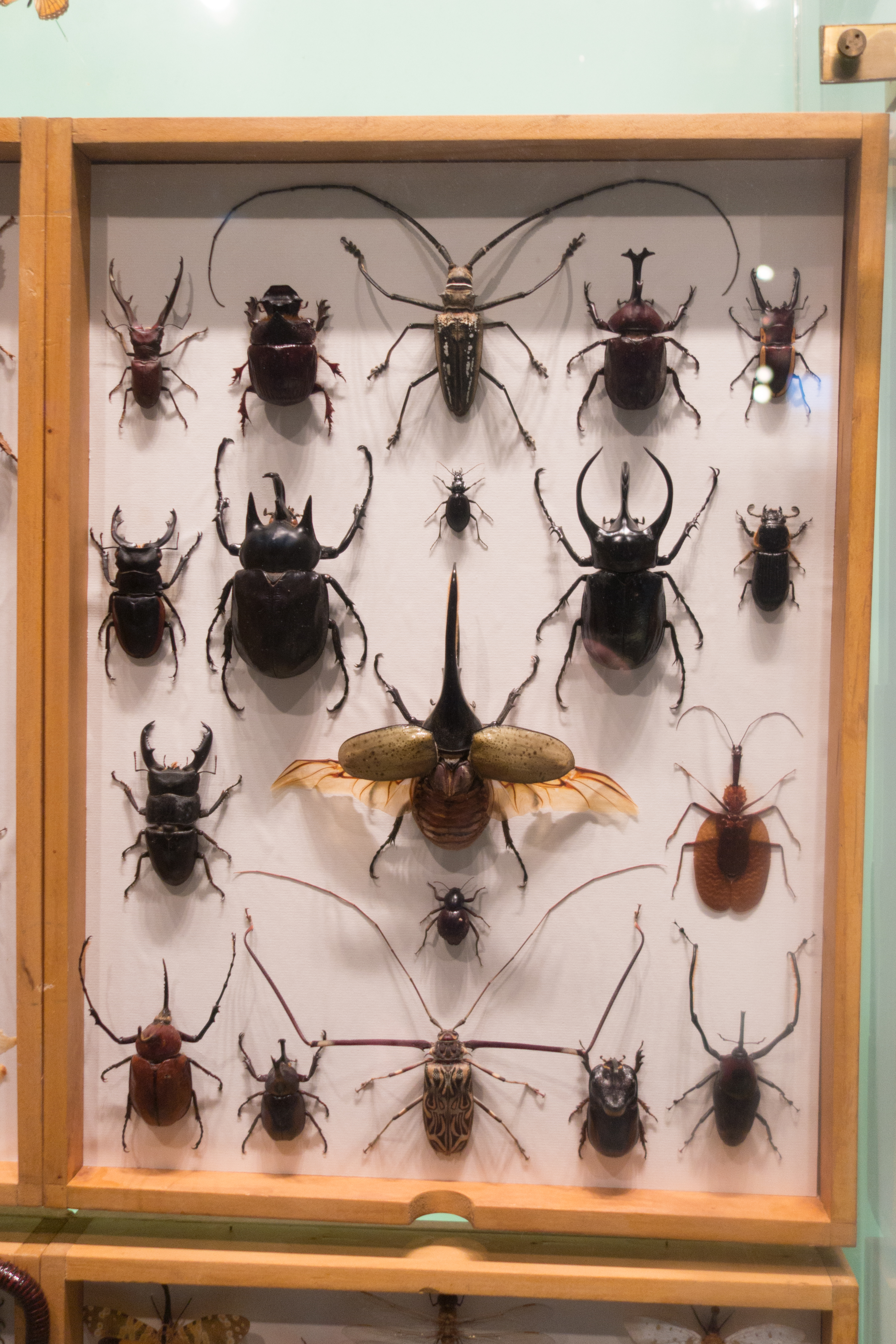 American Museum of Natural History, New York City, 2015